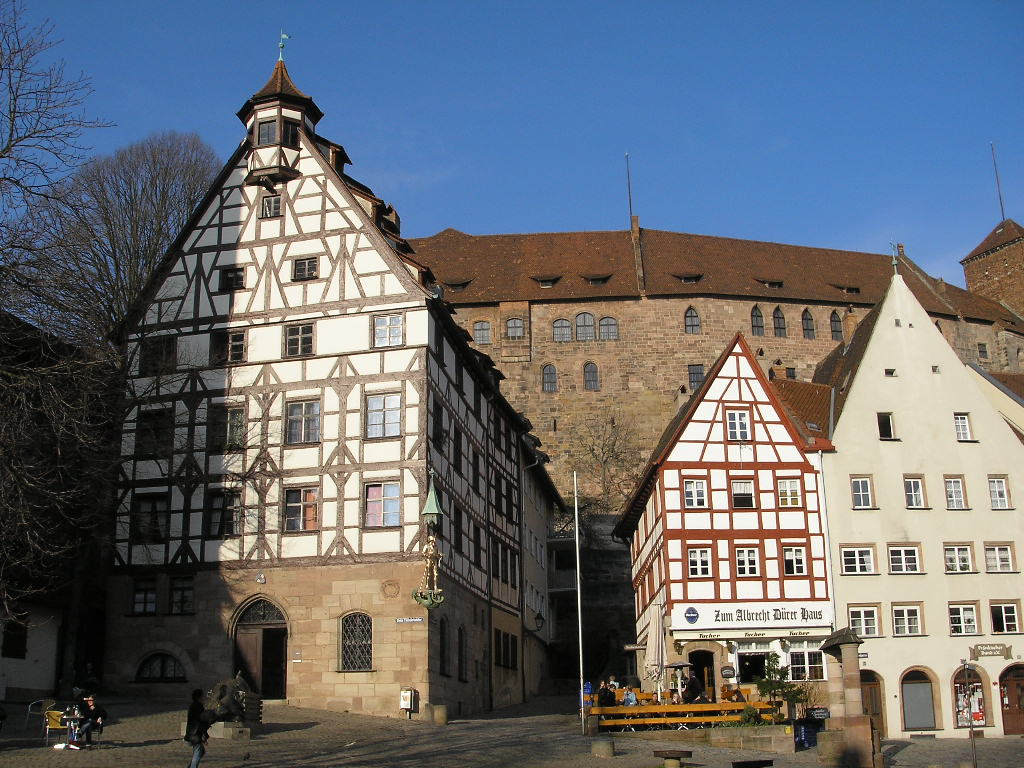 Image of Tiergärtnertor with view of the Kaiserburg in Nuremberg, Bavaria.